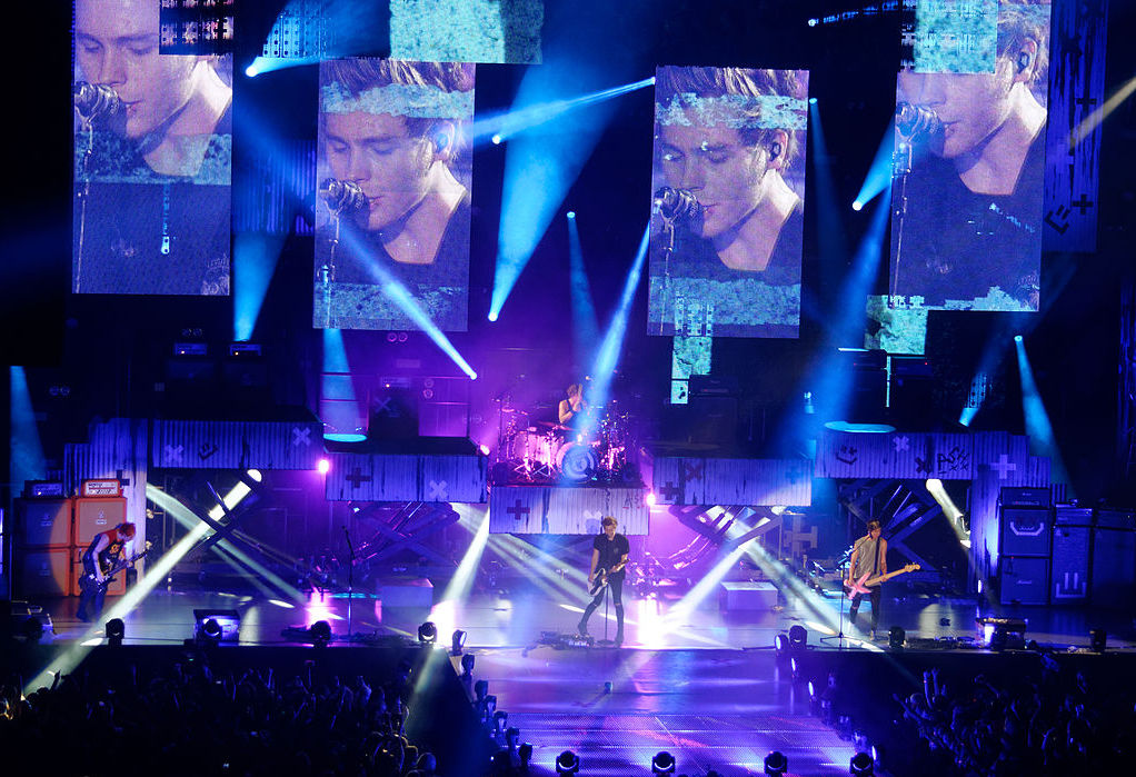 5 Seconds of Summer performing live at The Forum in Inglewood California on Saturday November 15th, 2014. This was the first of a two-night stand at this Los Angeles arena (formerly the Great Western Forum, once the home of the Los Angeles Lakers). The Veronicas opened for 5SOS. Taken from the second to the last row of section 235, which is about as far away from the stage as one can get at this venue.